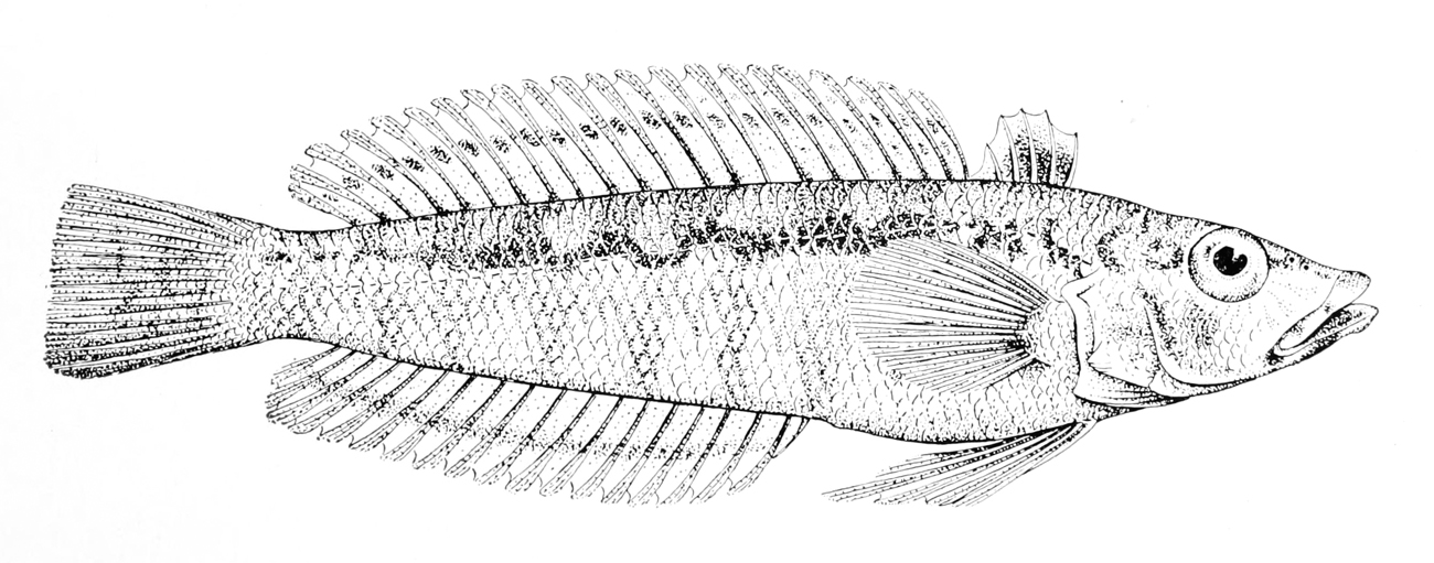 Parapercis haackei